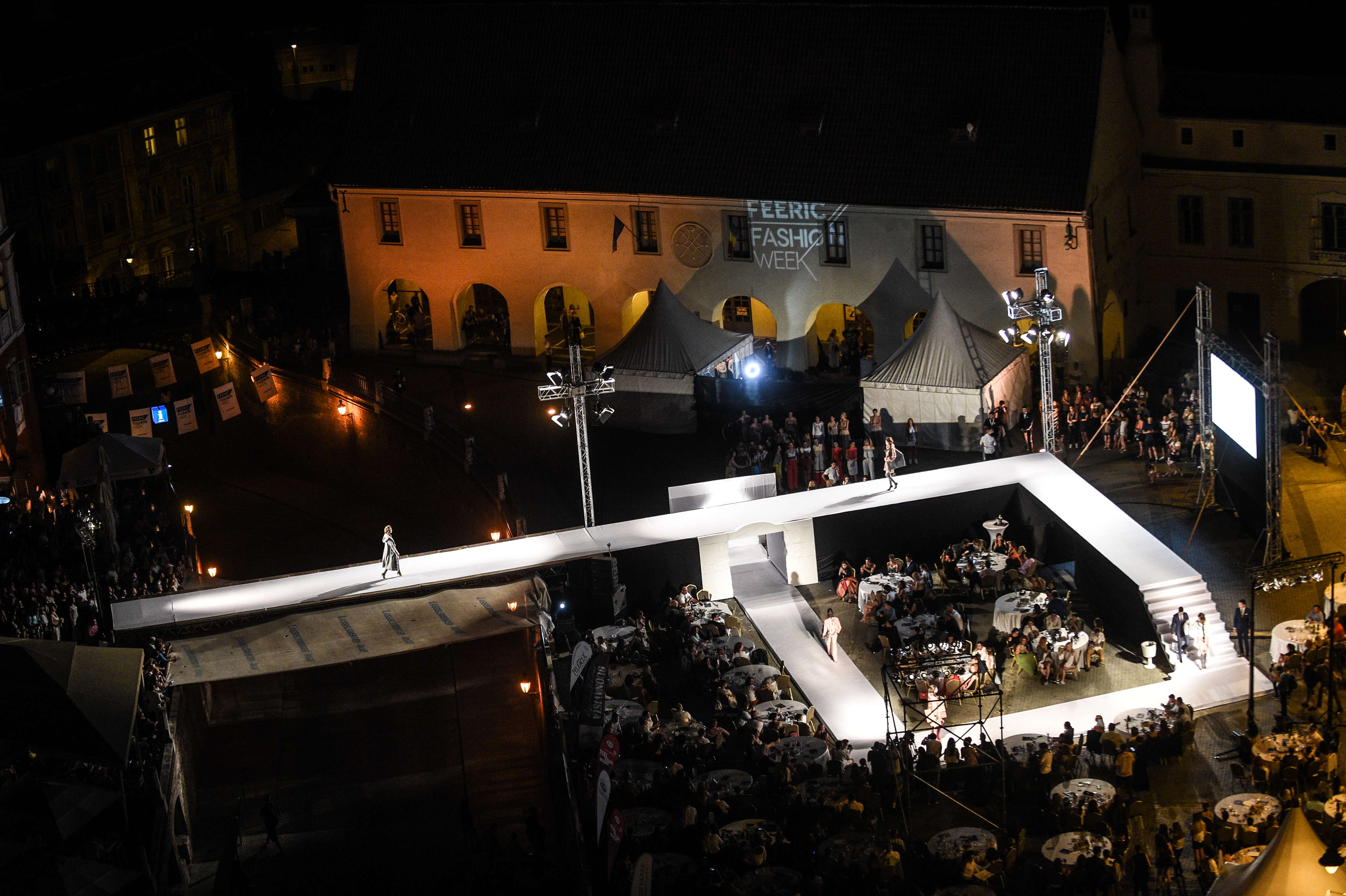 Feeric Gala is the closing event held in the Small Square of SIbiu